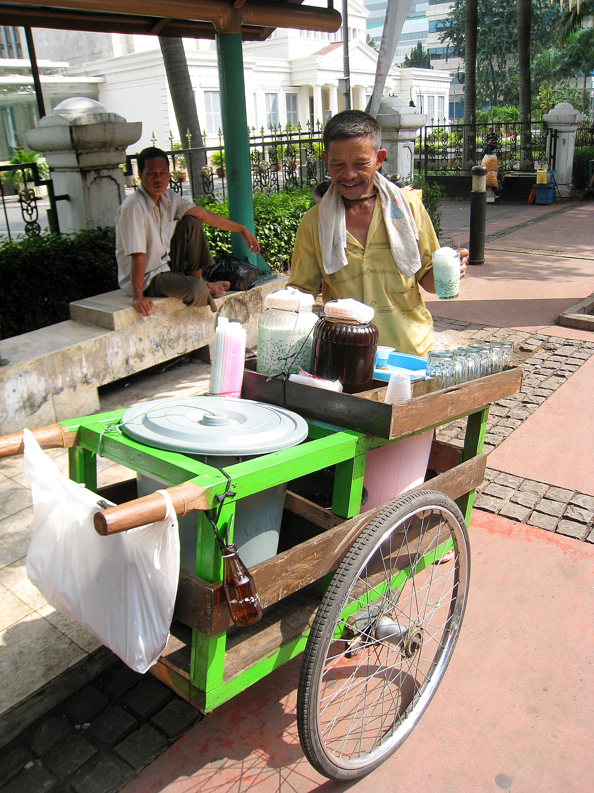 Cendol vendor cart at a bus stop in front of National Museum of Indonesia, Jakarta.